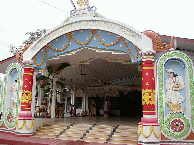 Jorhat